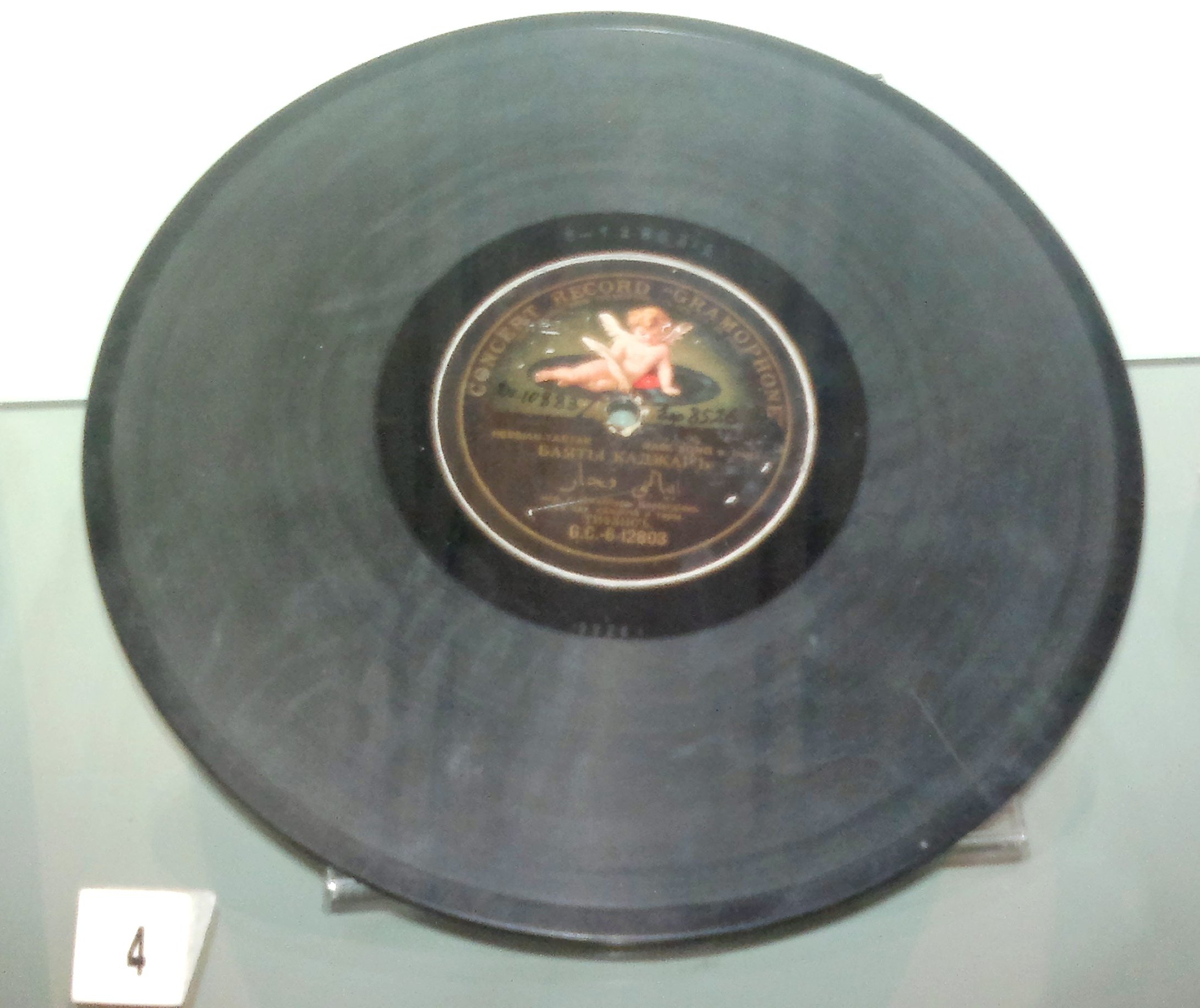 Record, Bayati Gajar mugham, performed by Jabbar Garyagdyoglu. Museum of History of Azerbaijan.